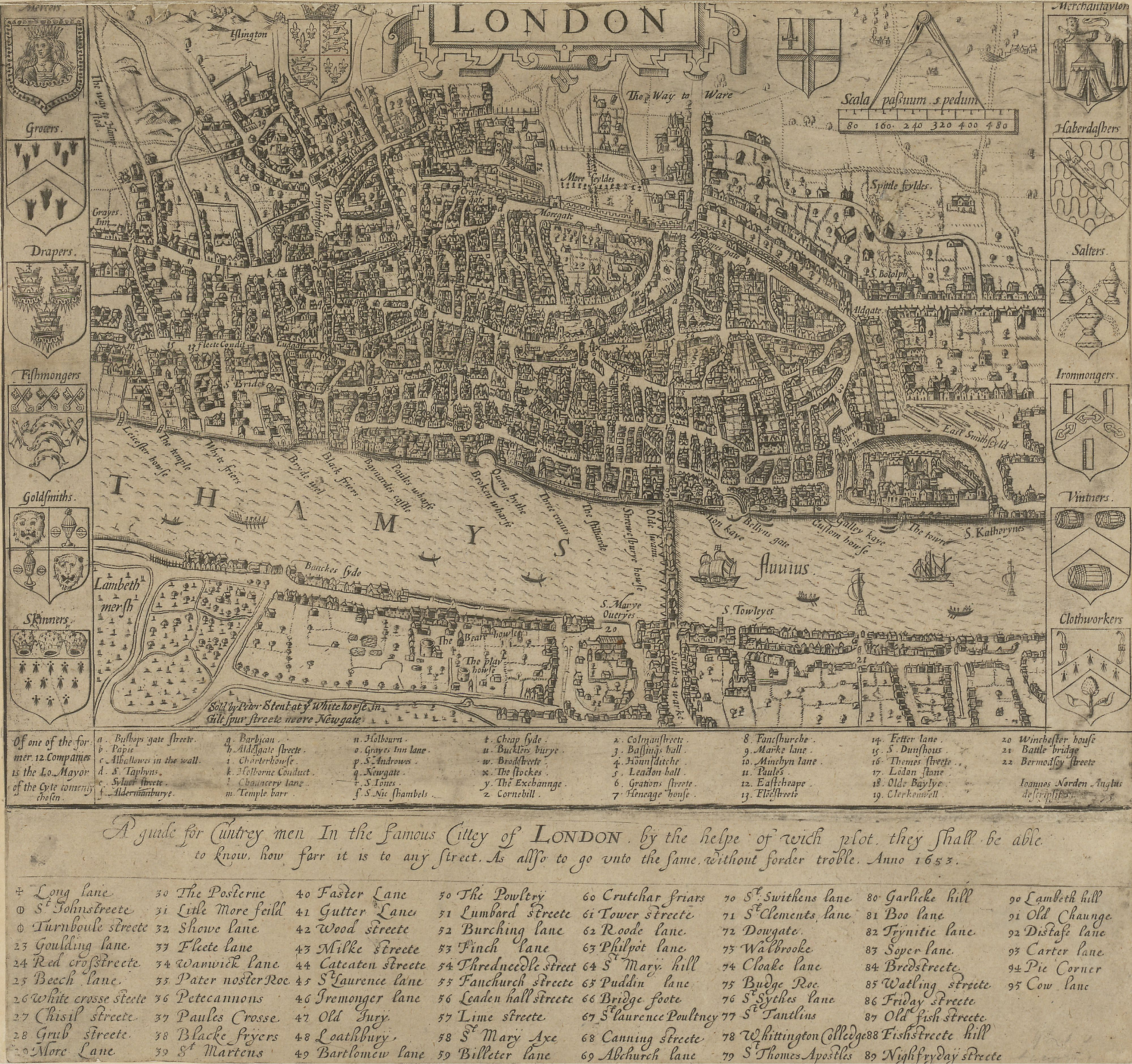 A guide for Cuntrey men In the famous Cittey of London. A map of London by John Norden, 1593. This copy comes from the 1653 edition of Norden's Speculum Britainiæ (Mirror of Britain), re-issued after his death. There is only one bridge across the Thames, but parts of Southwark on the south bank of the river have been developed. The coats of arms around the edge belong to the twelve largest city guilds. These arms collectively were known as the "Great Liveries". Top right is the Merchant Tailors' arms. Medium: Engraving (229×241 mm) Map scale: 4" : 1 Statute Mile (1 : 15840) British library shalf mark: Maps.Crace I, number 33